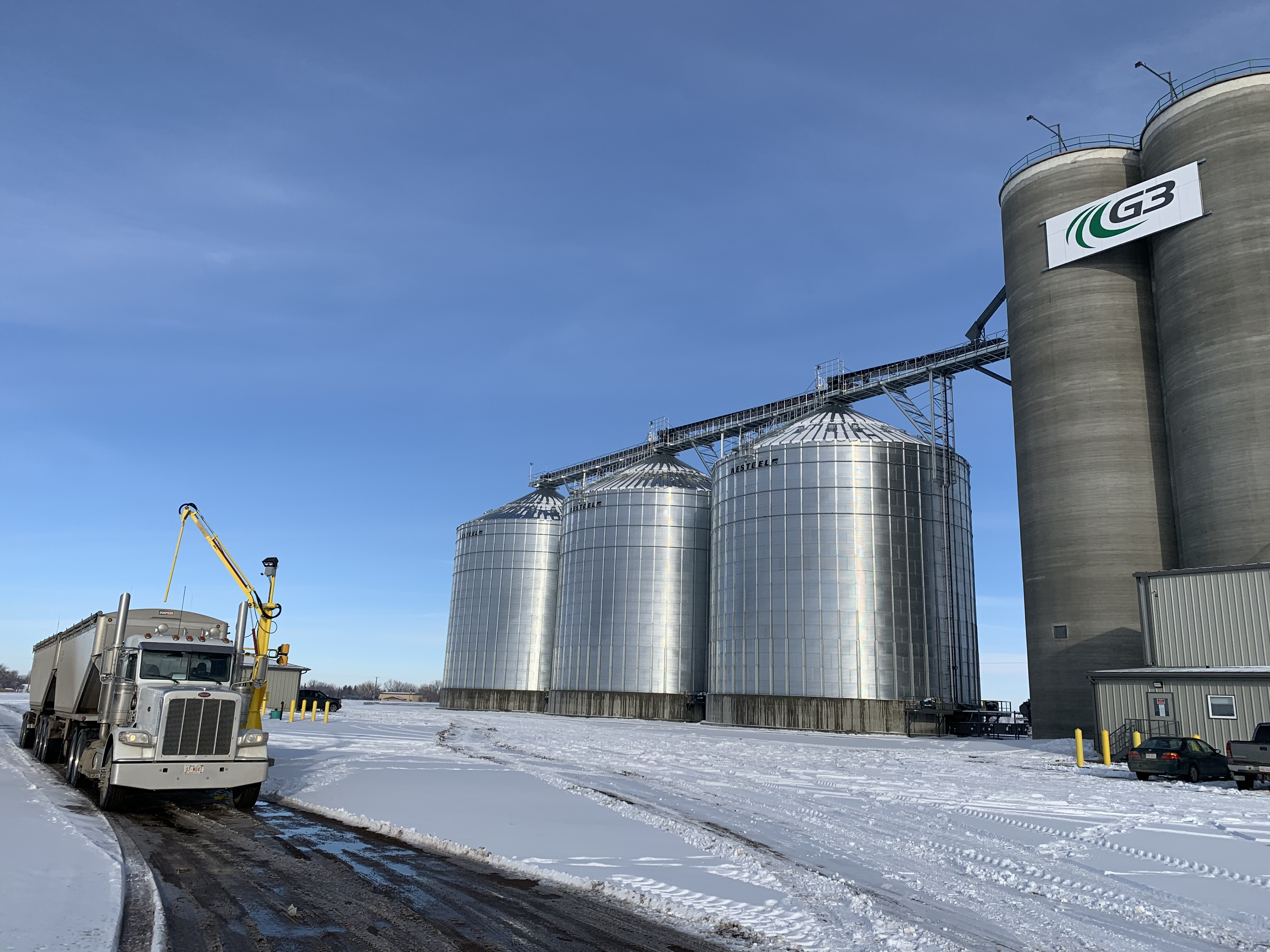 G3 grain elevator at Carmangay, Saskatchewan